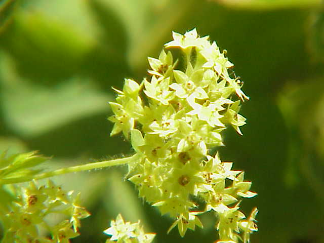 Species: Alchemilla alpina Family: Rosaceae Image No. 1